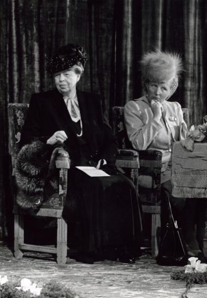 Eleanor Roosevelt and the Dutch crown princess Juliana in Knights' Hall in The Hague where the widow of the American president is honoured. The Netherlands, 19 April 1948.